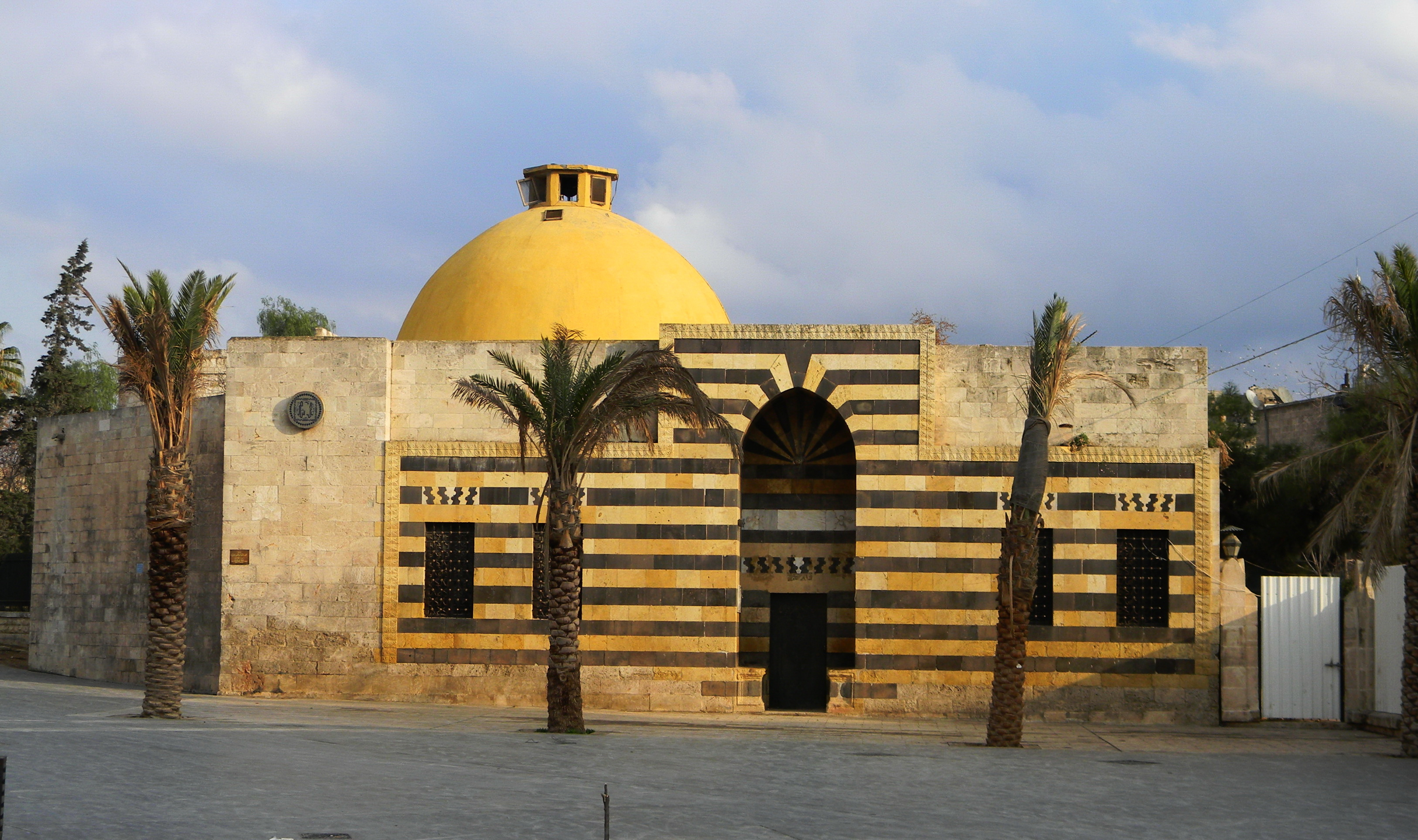 Hammam Yalbugha Aleppo